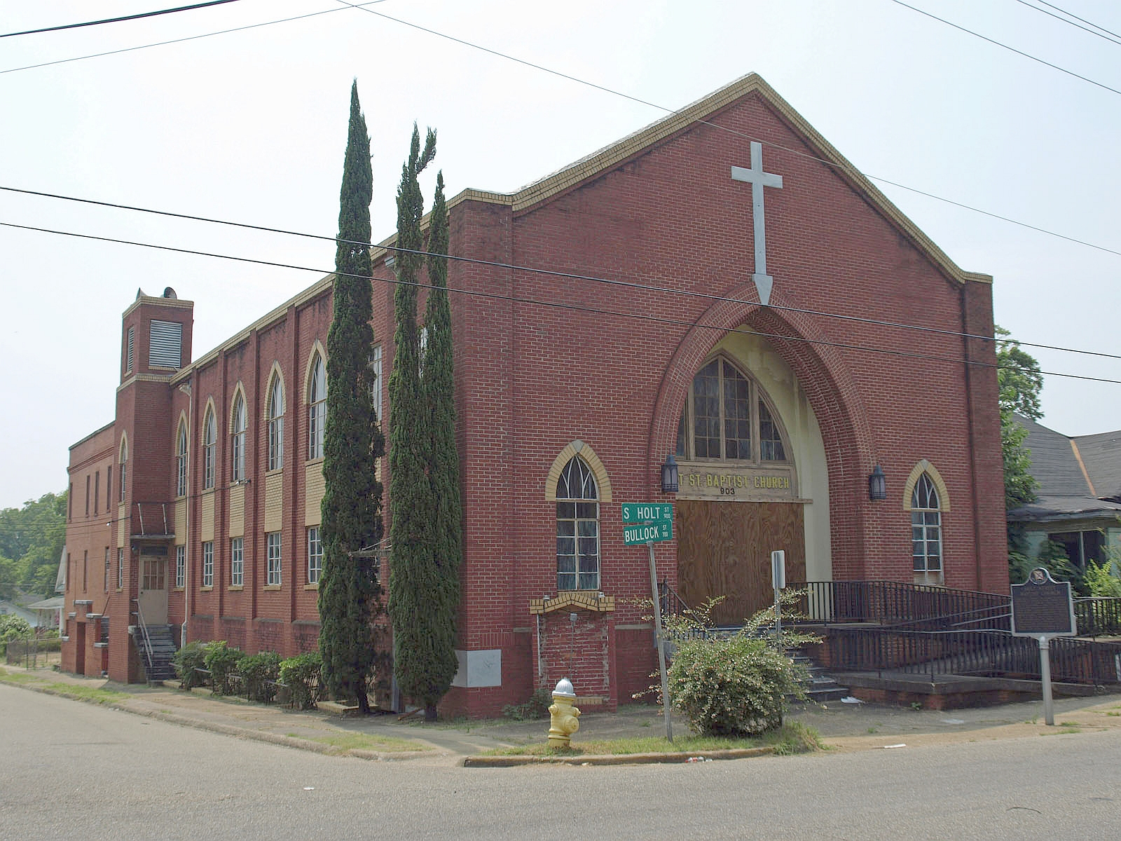 Front (west) and north sides of Holt Street Baptist Church in Montgomery, Alabama